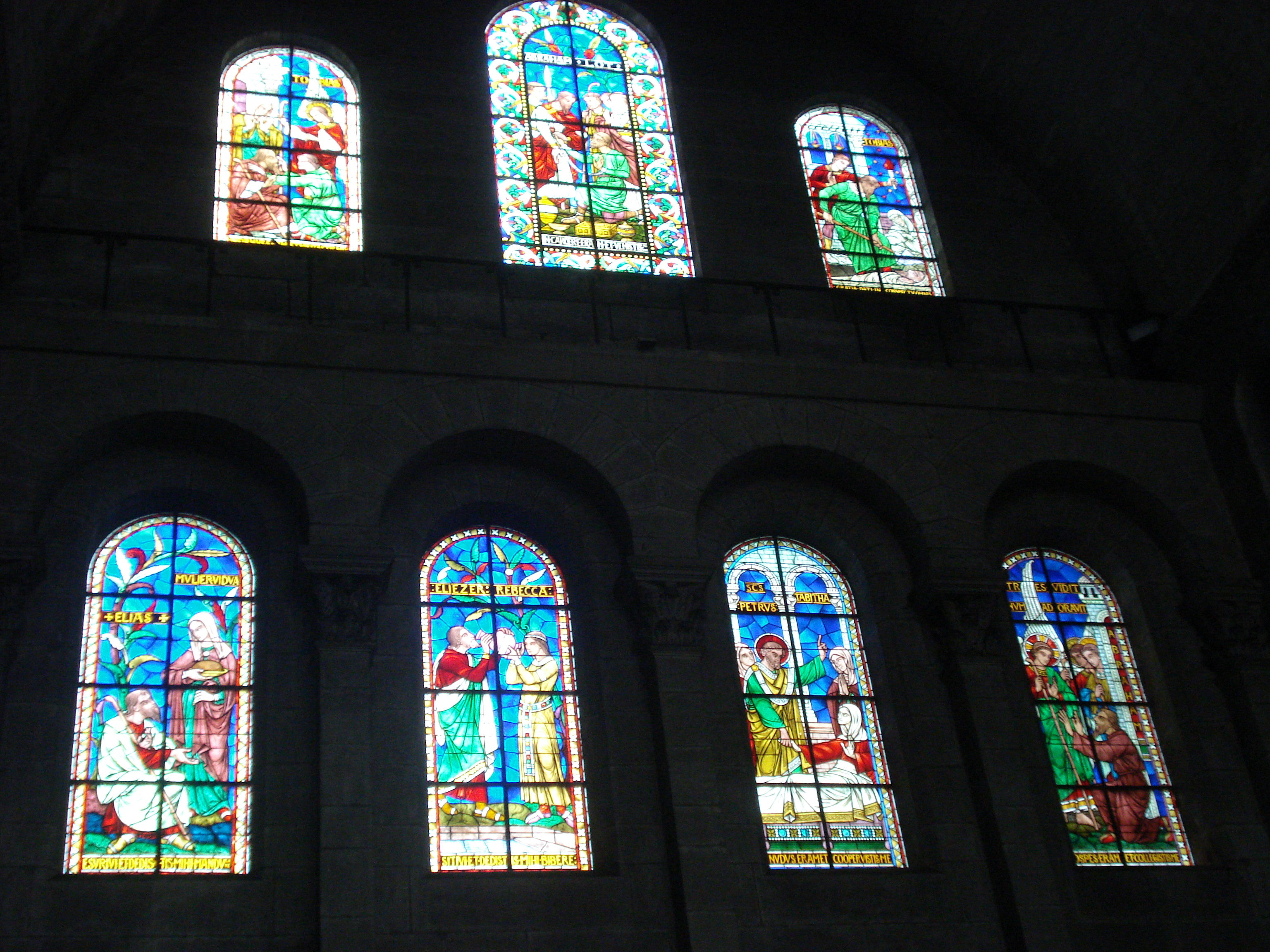 Périgueux (Fr), St.front's cathedral, windows 1